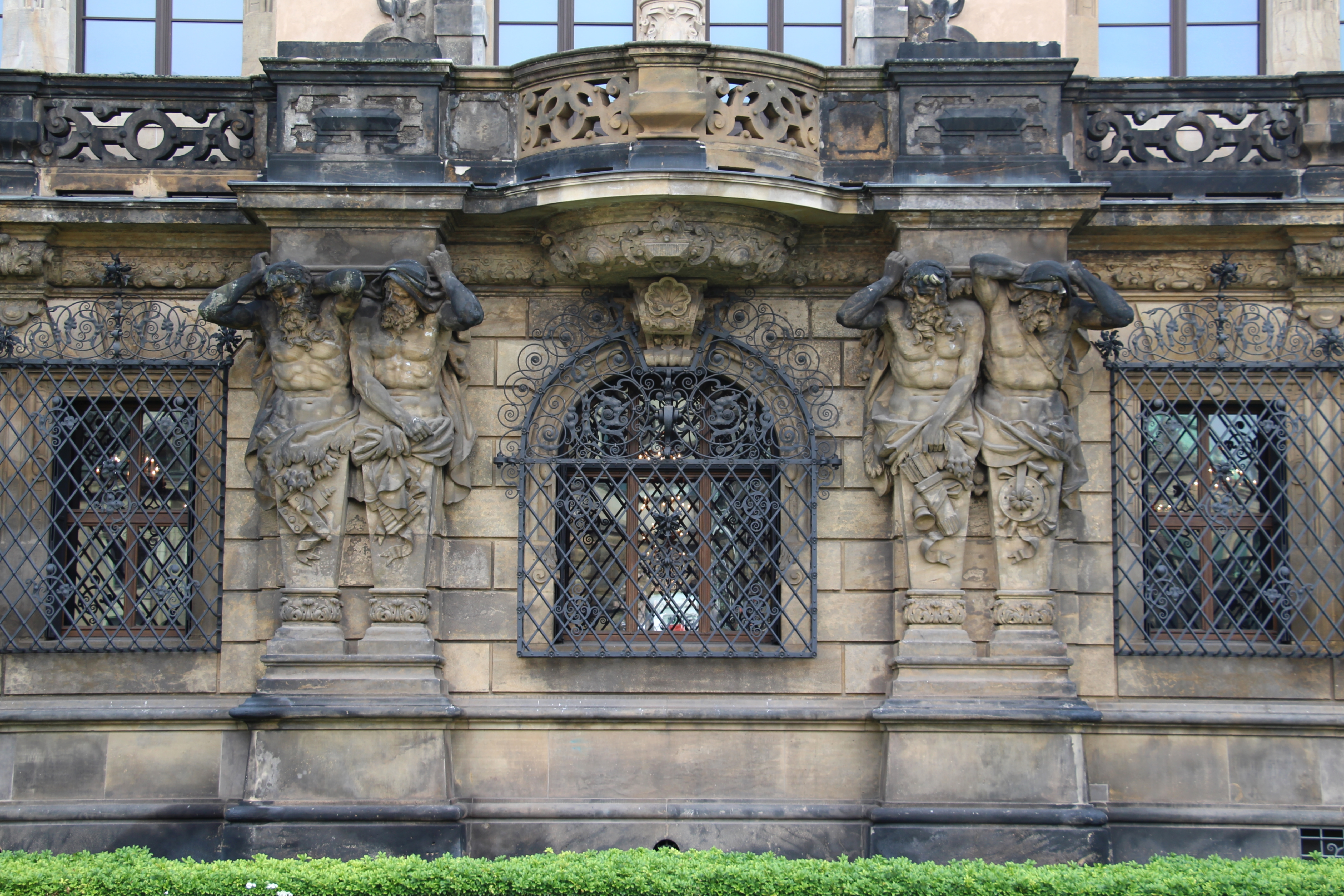 Taschenberg Dresden Castle or Royal Palace has been the residence of the electors and kings of Saxony of the Albertine line of the House of Wettin for almost 400 years. It is known for the different architectural styles employed, from Baroque to Neo-renaissance (1533-1899). Today, the residential castle is a museum complex that contains the Historic and New Green Vault, the Numismatic Cabinet, the Collection of Prints, Drawings and Photographs and the Dresden Armory with the Turkish Chamber. It also houses an art library and the management of the Dresden State Art Collections